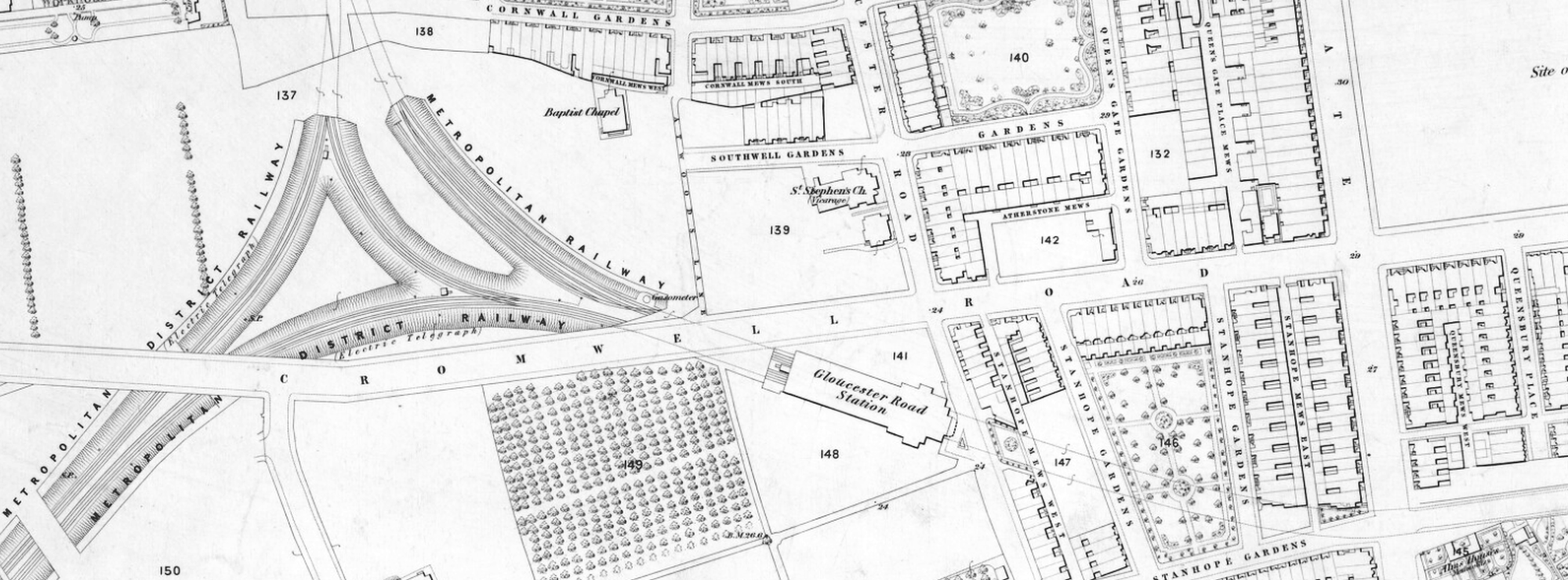 1st Epoch Ordnance Survey Map of Gloucester Road station, London.